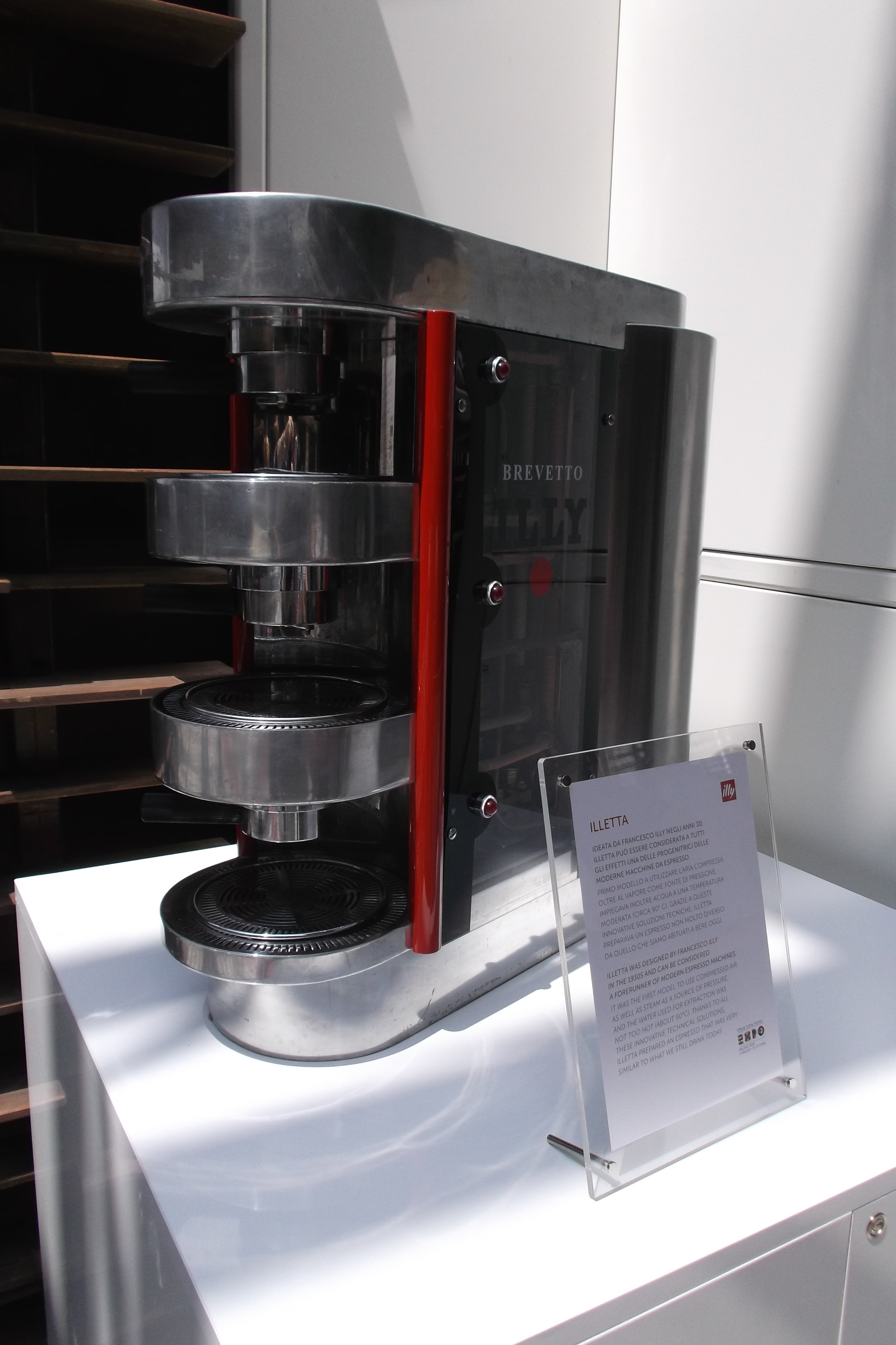 A 1930s Illetta Illy expresso machine exposed at Milan Expo 2015